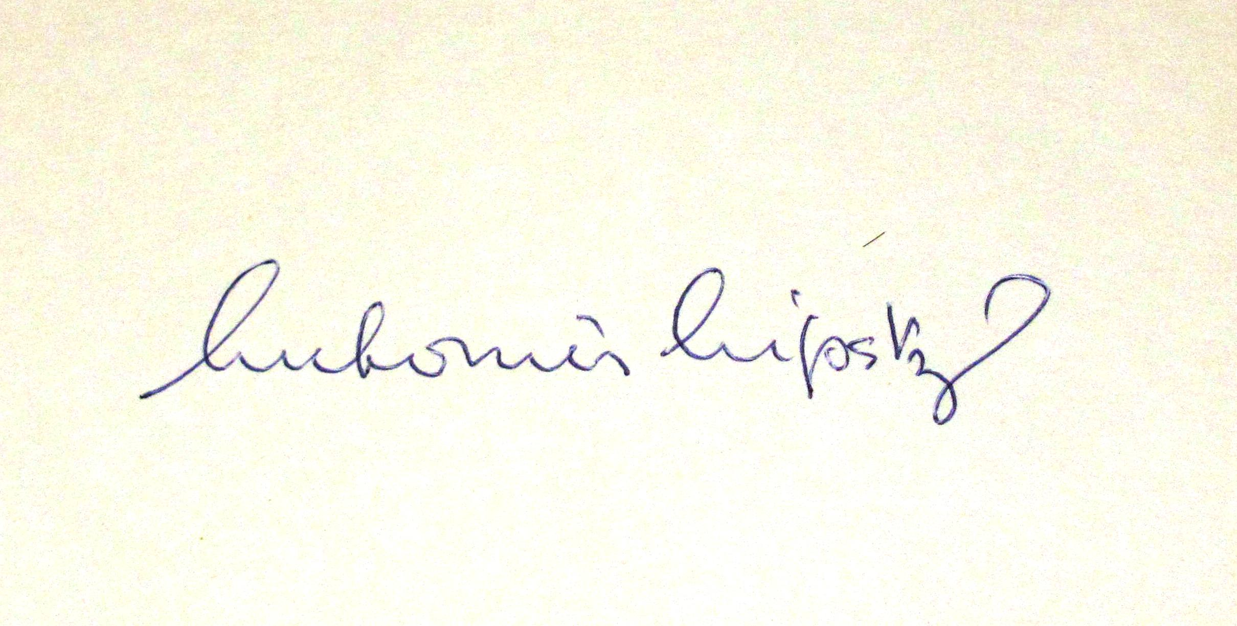 Autograph of Lubomír Lipský, Czech actor (1983)